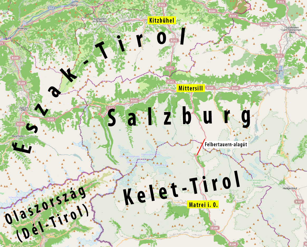 Self-edited map about Felbertauern-tunnel and its surroundings. Base map